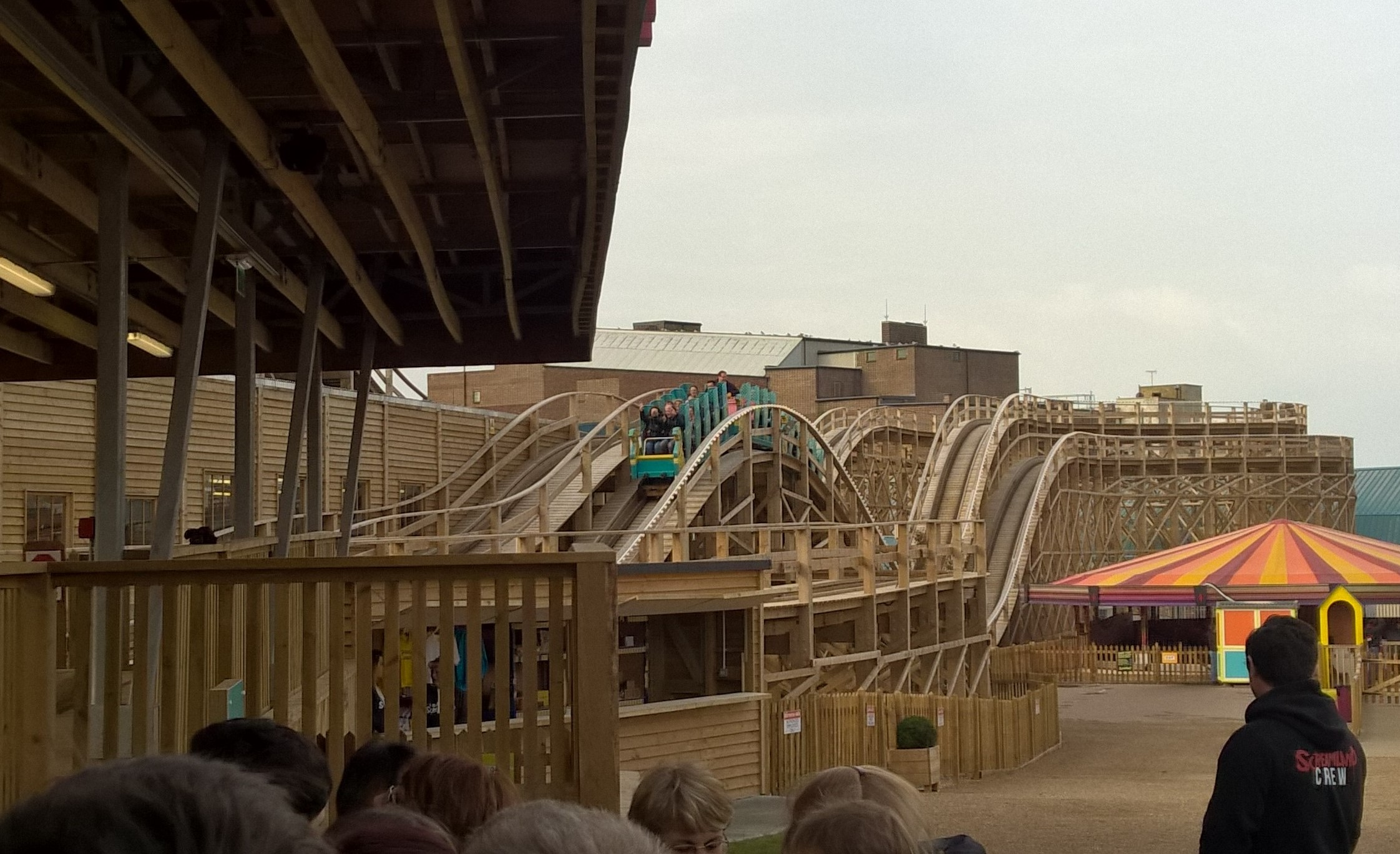 The Scenic Railway roller coaster at Dreamland Margate operating in October 2015 shortly after restoration and reopening to the public.